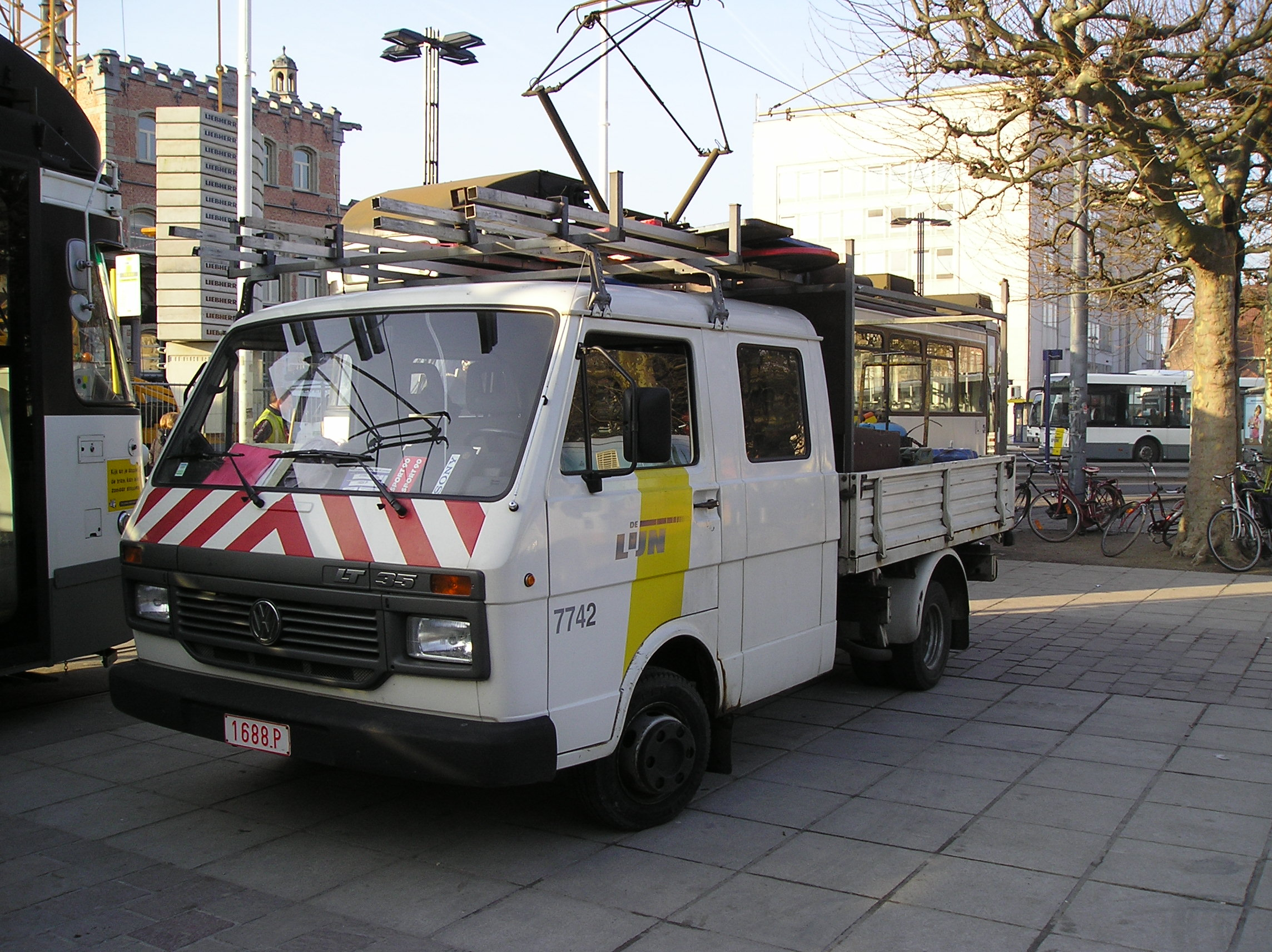 Photo taken in Ghent, in front of Sint)Pieters train station. Note that this truck does not have pantograph, it belongs to the tram (old PCC-car) behinde.